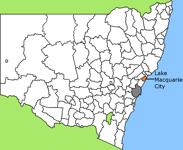 Map of New South Wales/Australia, LGA of the City of Lake Macquarie highlighted